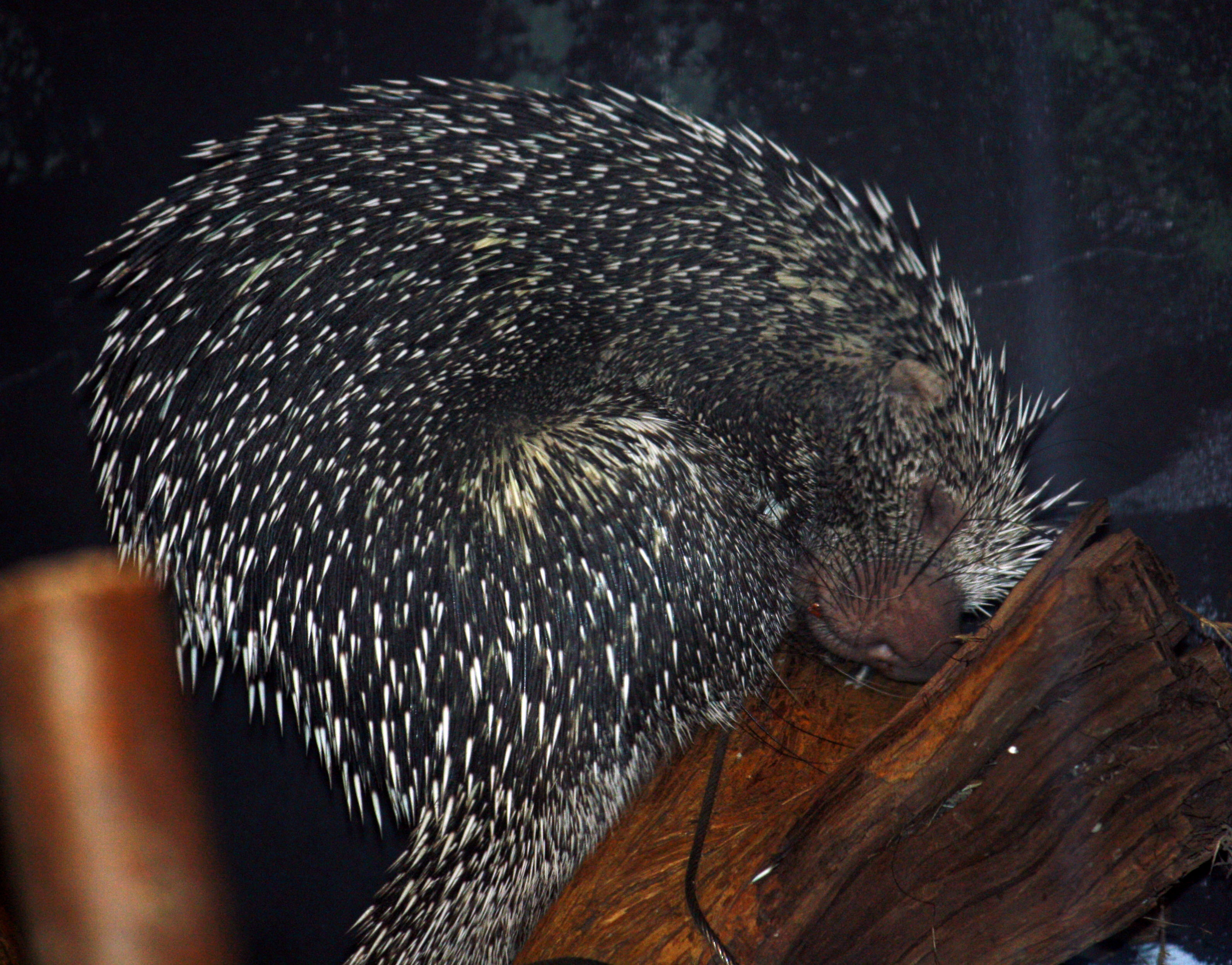 Brazilian Porcupine (Coendou prehensilis) at the Louisville Zoo